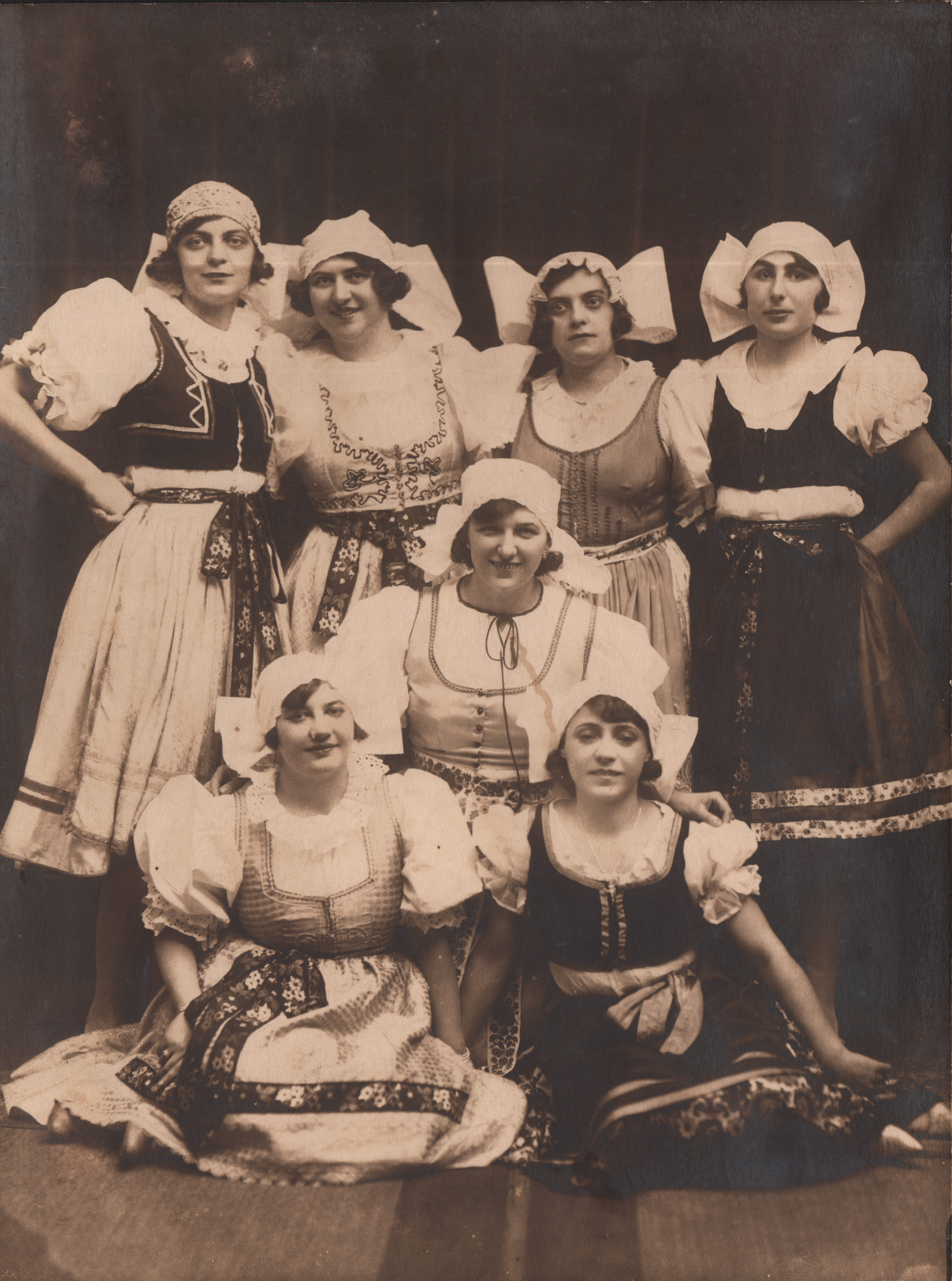 a Circle of Serbian Sisters. On the picture, from left to right: Beba i Pravda Srdanović, Dobrila Kaberhel, Vida Stejić, Vasić Danka, Olga Smederevac i Ankica Jakovljević